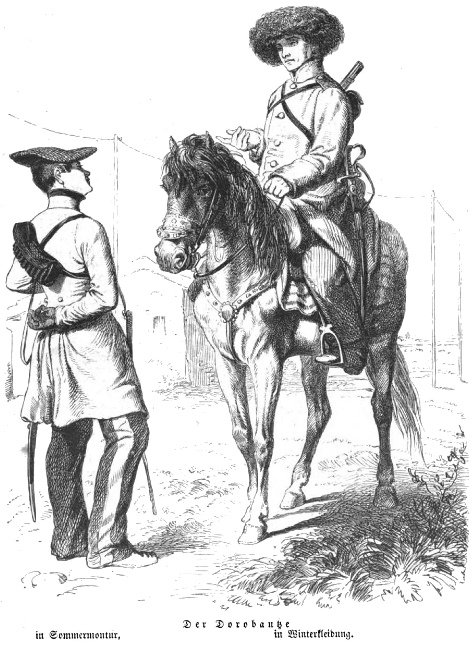 no caption